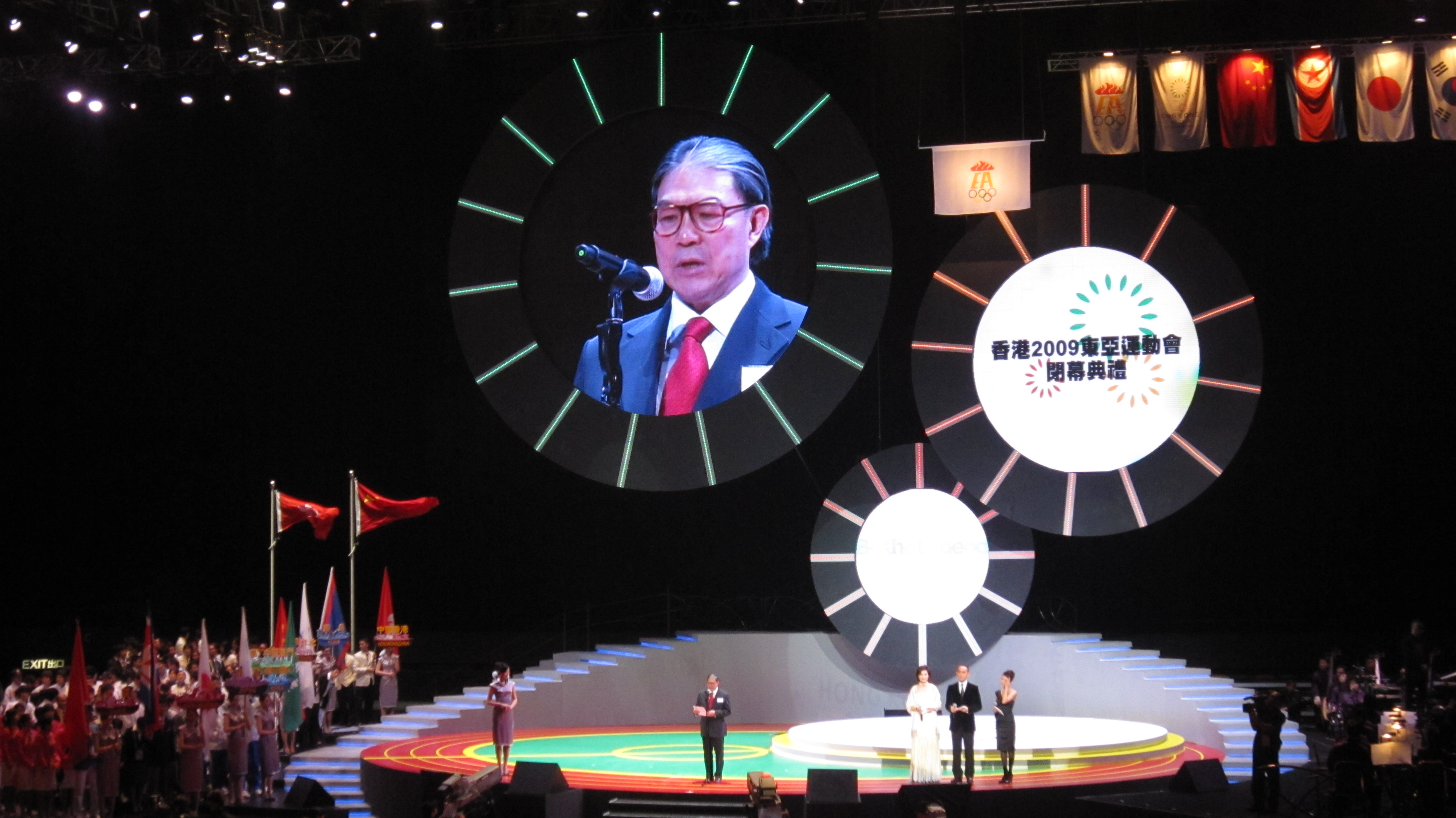 Hong Kong East Asian Games Closing Ceremony